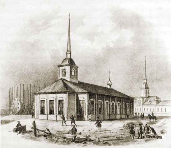 First St. Isaac's church in Saint Petersburg. Lithography of Auguste de Montferrand's Drawing.